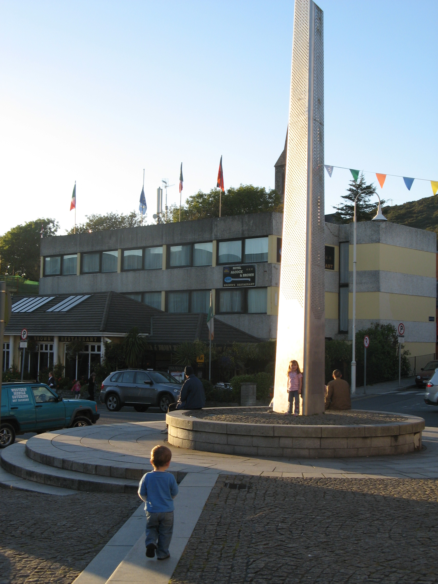 Clifden, County Galway, Ireland.